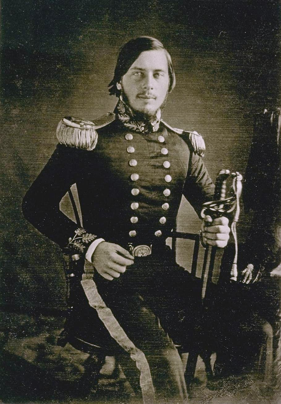 George Derby (1823-1861), American historian, California State Senator, United States Surveyor General for California, and trustee of the University of California